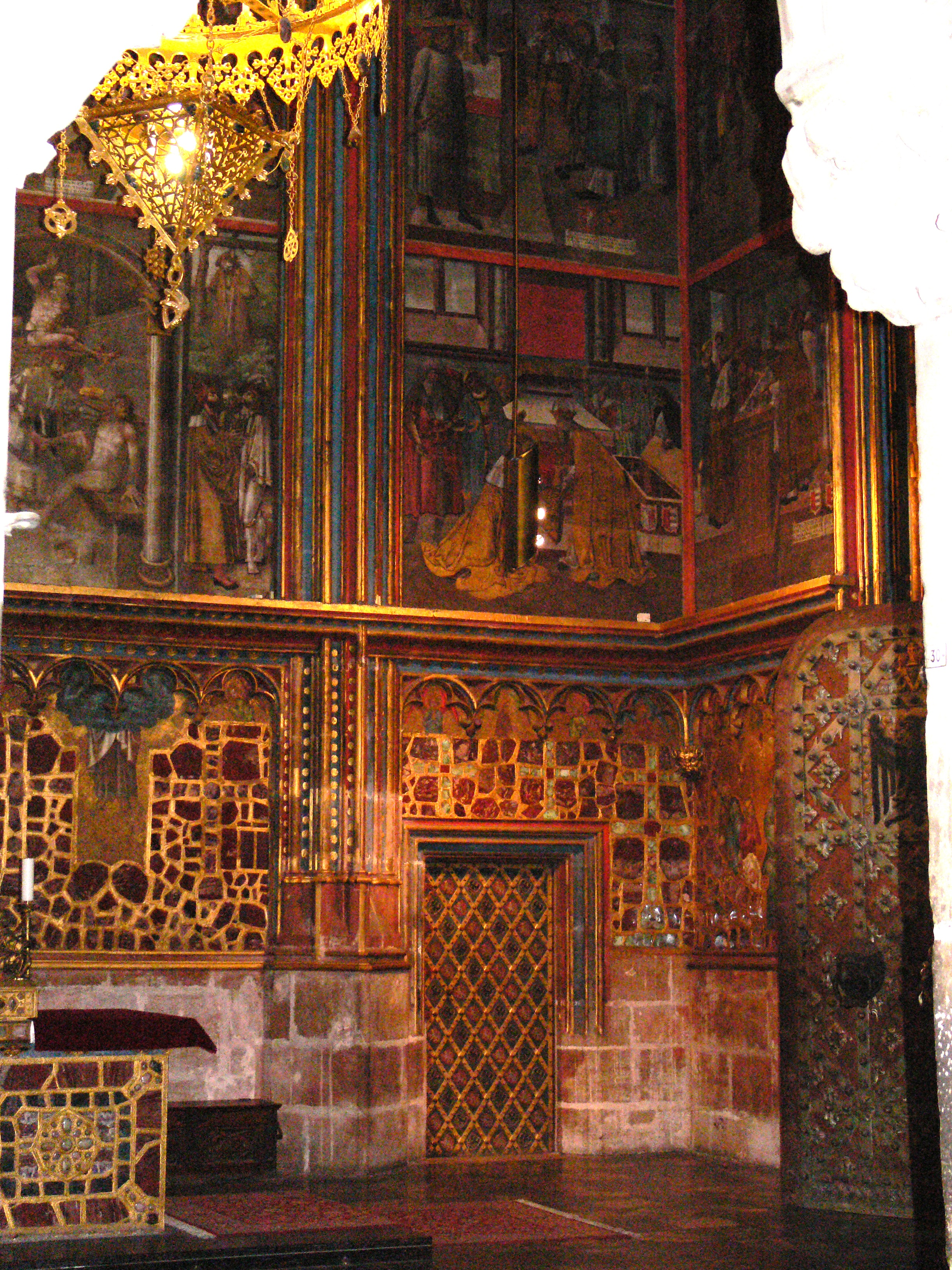 The door in the St. Wenceslas Chapel in the St. Vitus Cathedral in Prague, CZ. The door leeds to the crown room where the Czech crown jewels are preserved. The door has seven locks.